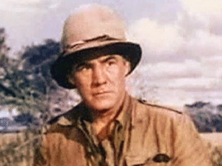 Screenshot of Torin Thatcher from public domain film The Snows of Kilimanjaro